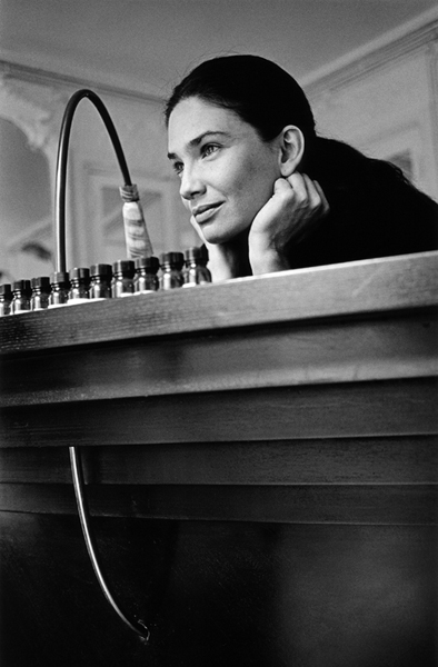 Olivia Giacobetti by Guillaume Luisetti.